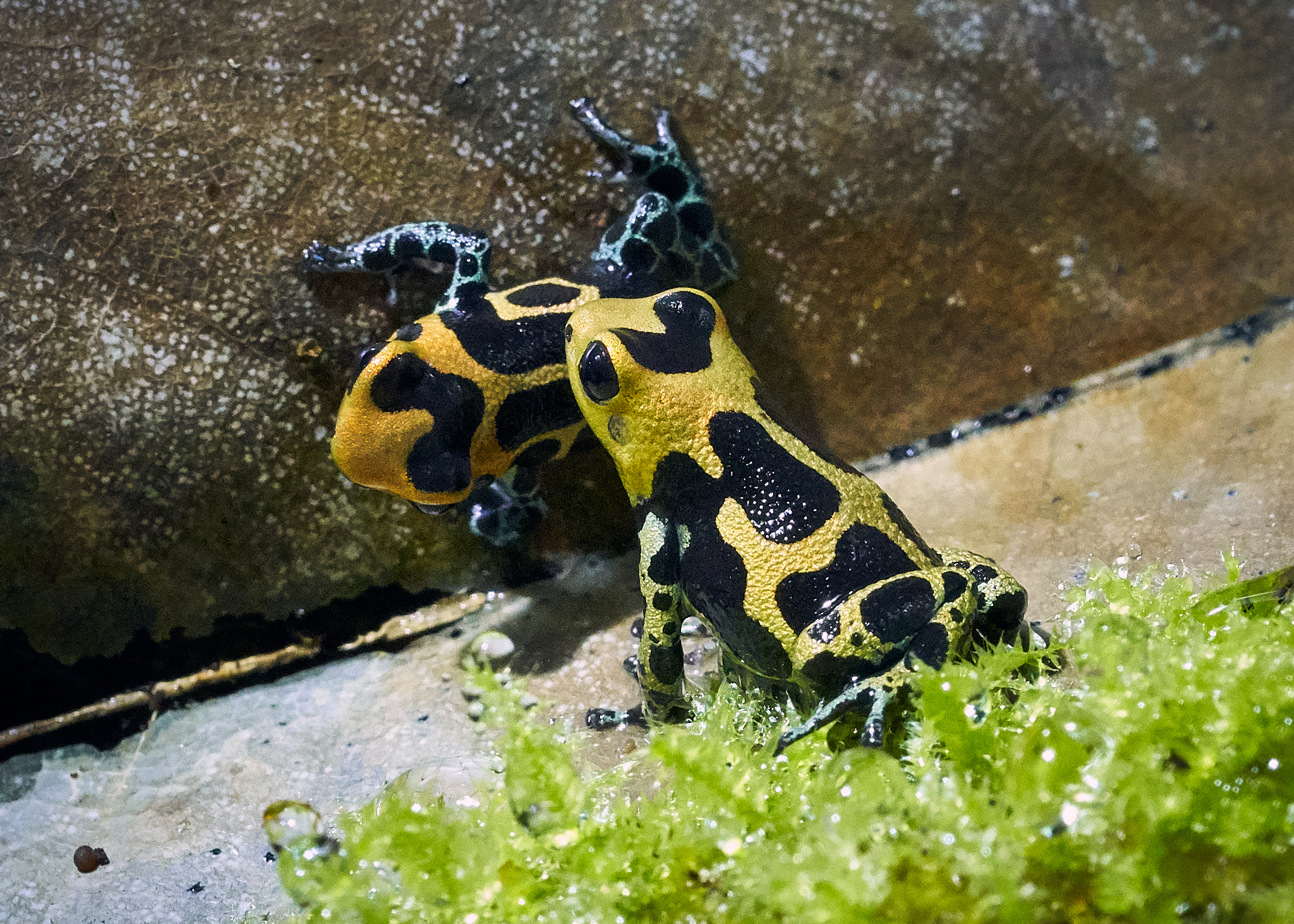 Captive bred R. imitator from a lineage originating in the Chazuta region of Peru.